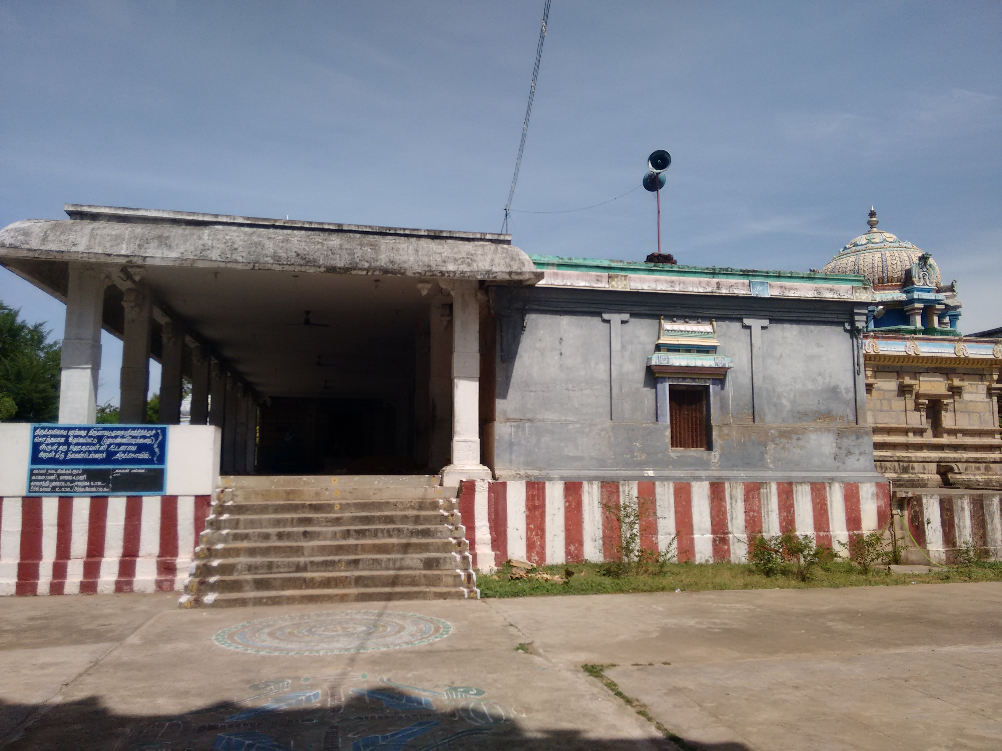 இலுப்பைப்பட்டு நீலகண்டேஸ்வரர் கோயில் Iluppaipattu Neelakandeswarar Temple